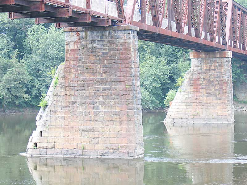 Canalside Rail Trail Bridge in Massachusetts, USA. This image shows the bridge piers, including some of the lesser damage sustained by the western pier.